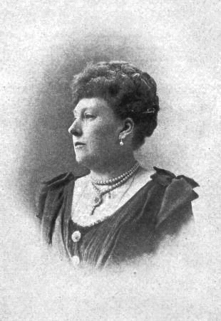 Princess Beatrice of the United Kingdom - Project Gutenberg eText 13103 From The Project Gutenberg eBook, Great Britain and Her Queen, by Anne E. Keeling